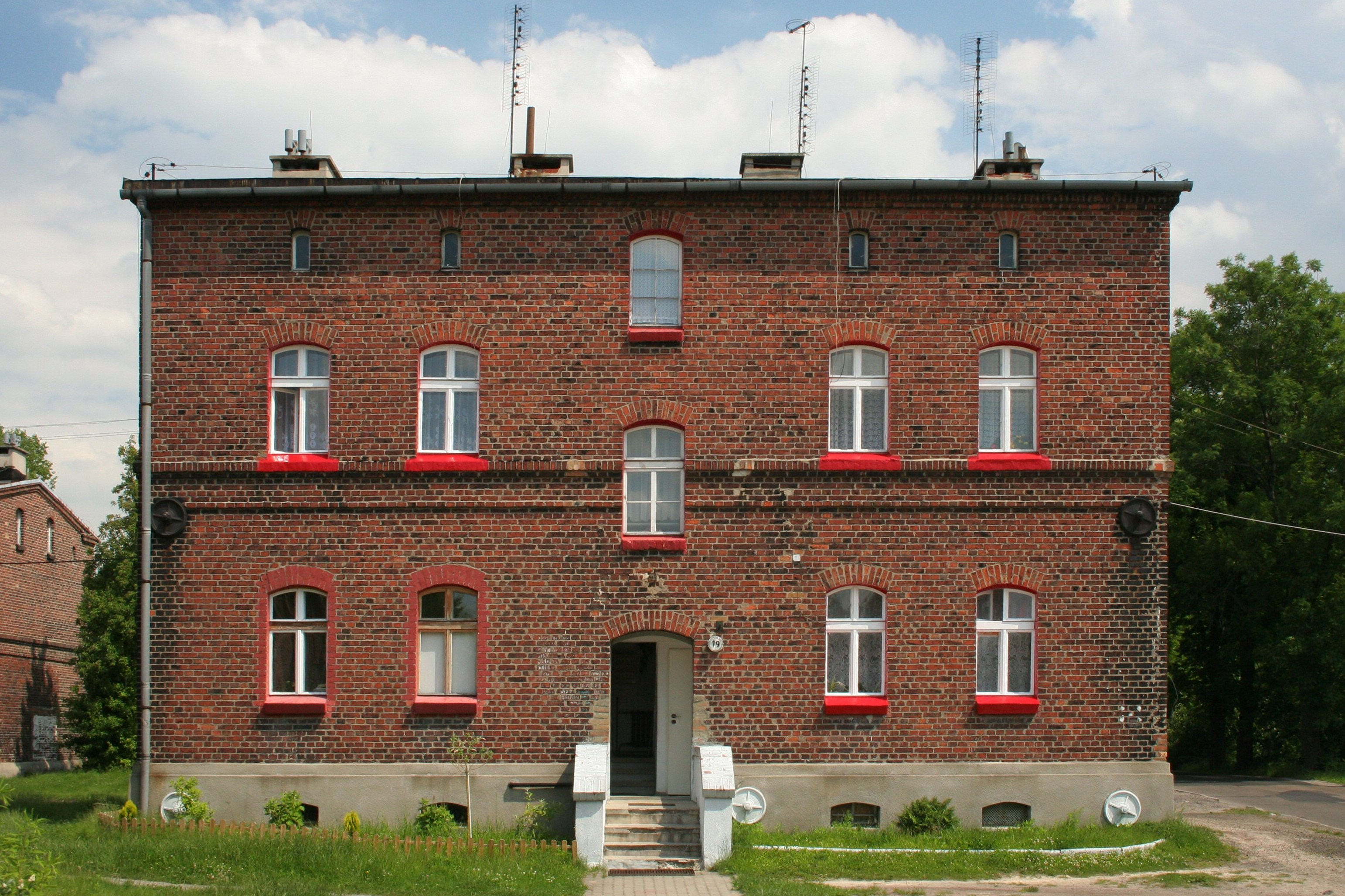 Kolonia Zgorzelec in Bytom.